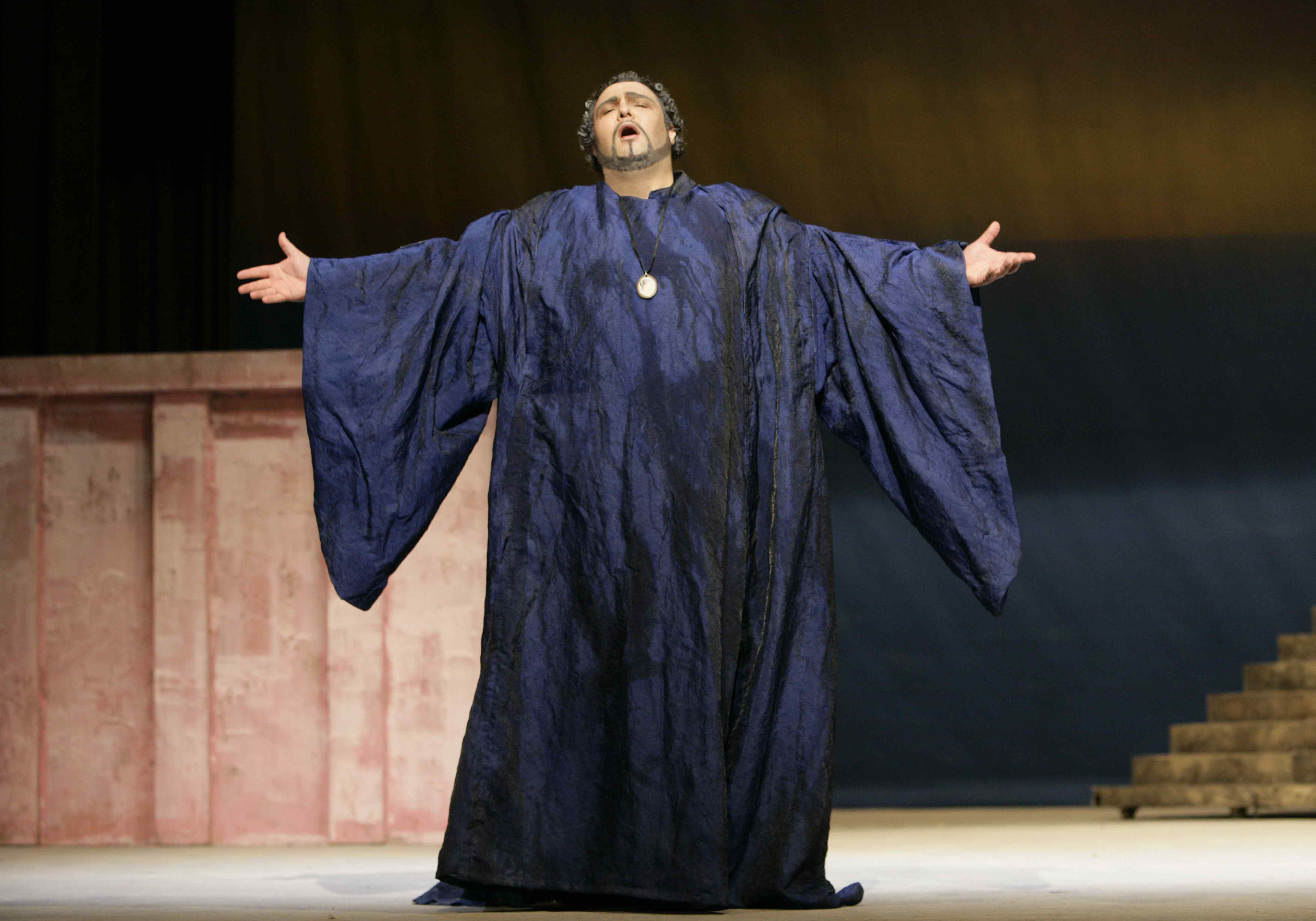 This is a picture of Kiril Manolov performing the role of Simon Boccanegra.